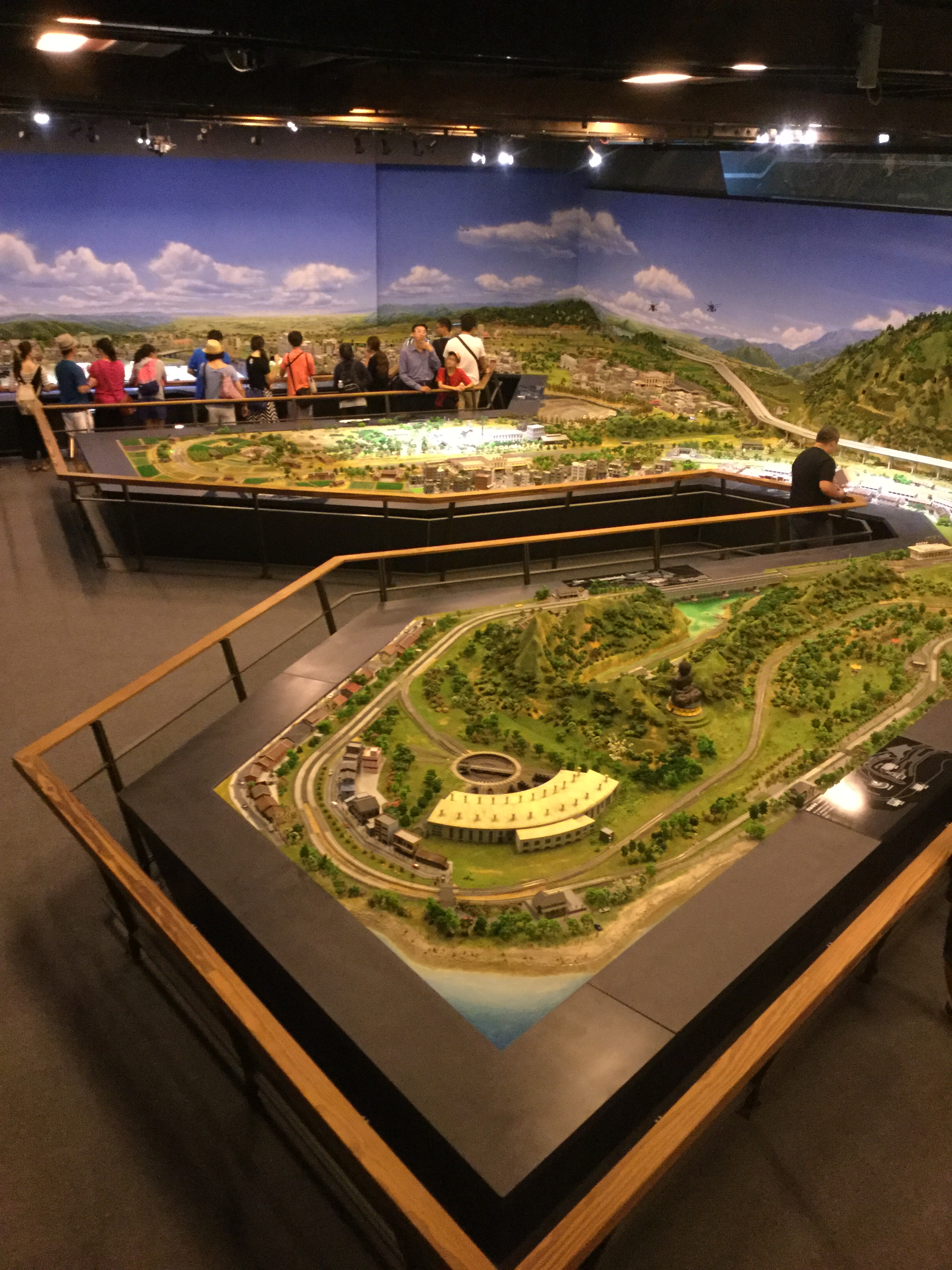 Hamasen Museum of Taiwan Railway HO scale layout, in Pier-2 Art Center, Kaohsiung